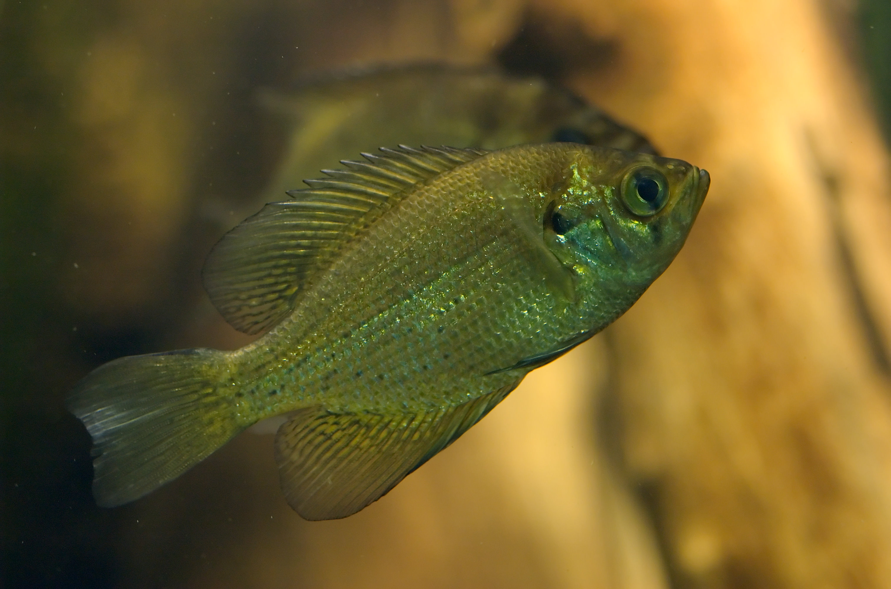 Flier